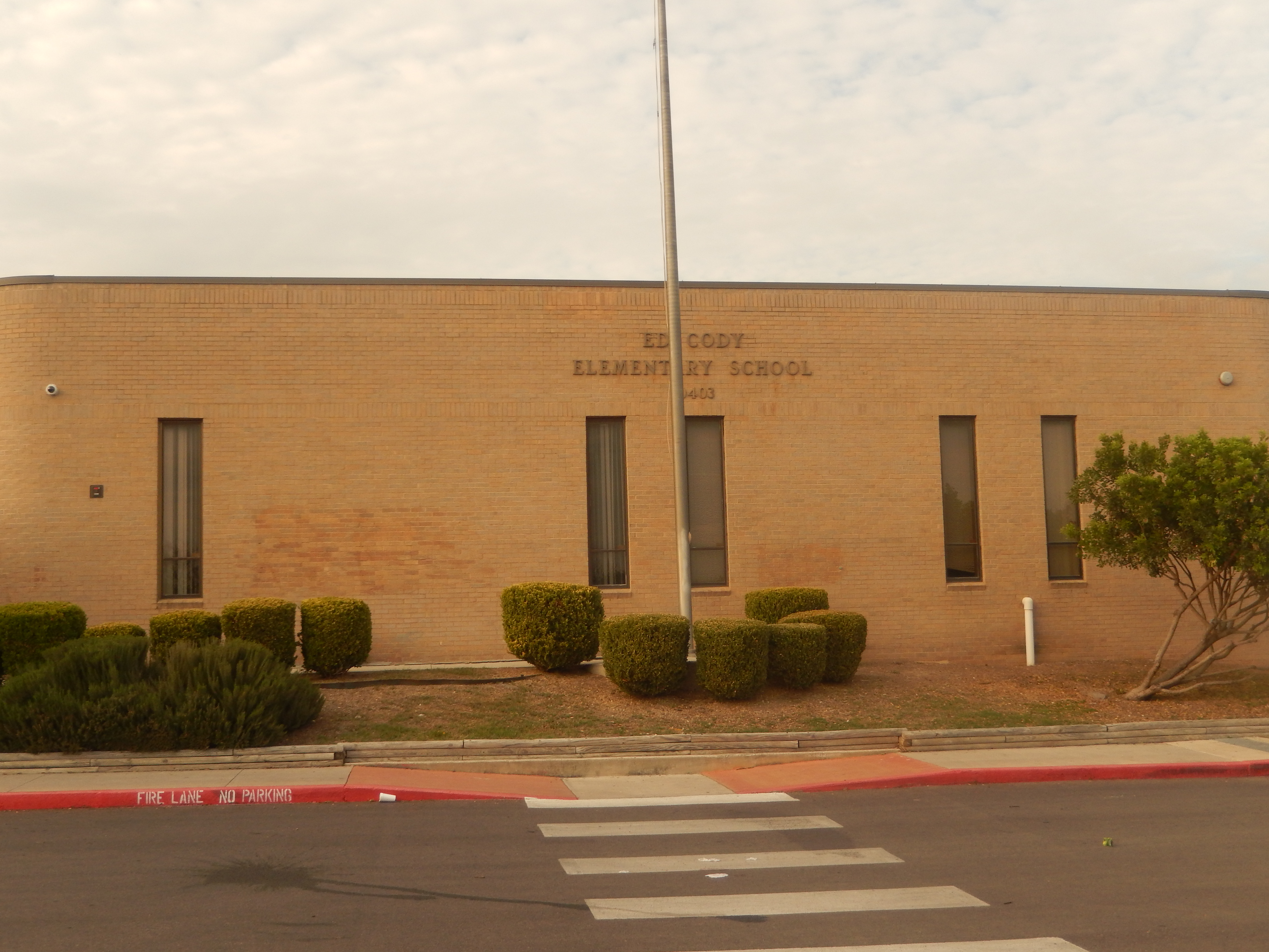 I took photo with Nikon camera of Ed Cody Elementary School in San Antonio, TX, an entity of the Northside Independent School District.